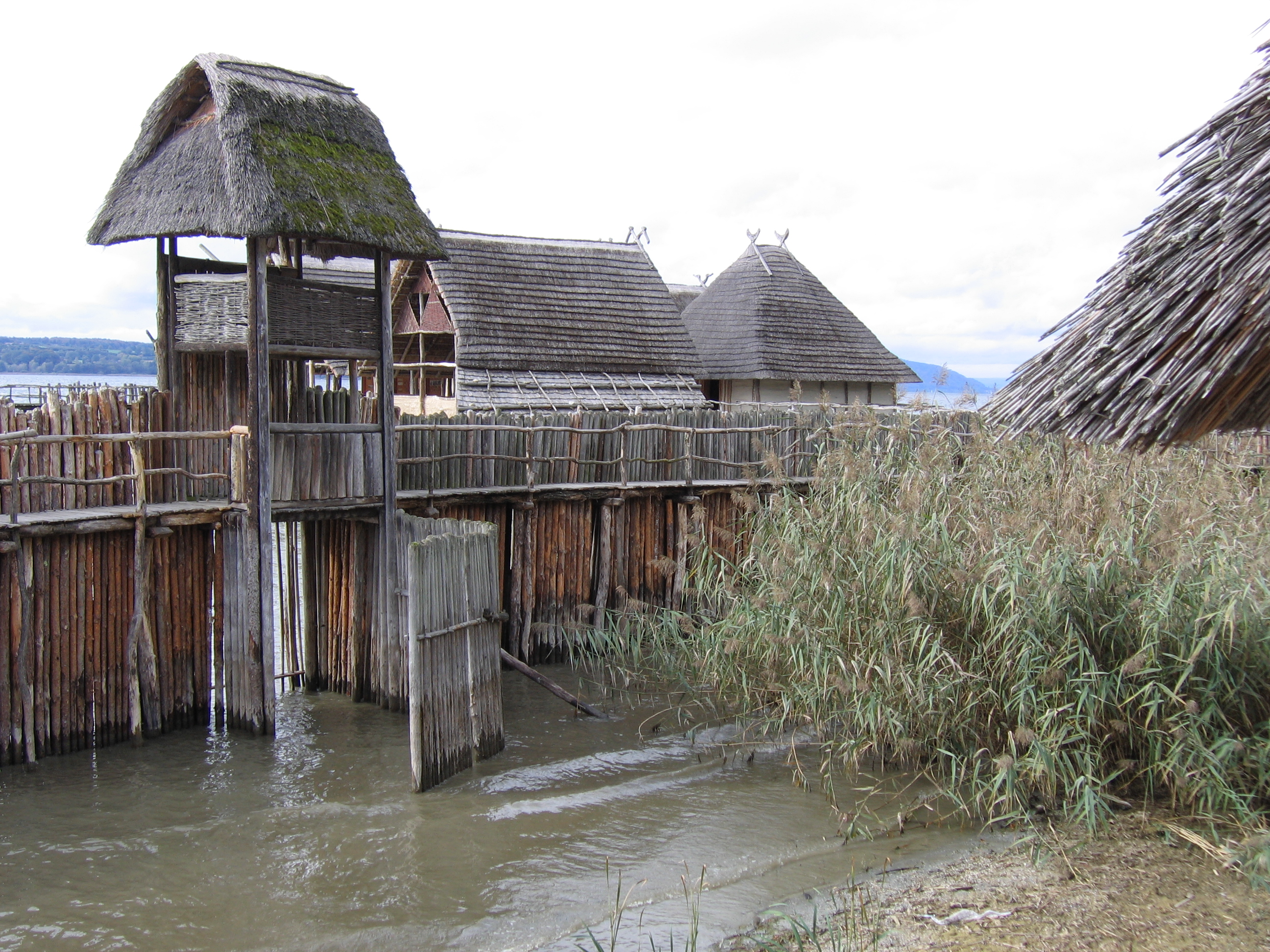 Germany - Baden-Württemberg - Bodenseekreis (district) - Uhldingen-Mühlhofen: Pfahlbaumuseum Unteruhldingen (Stilt house museum)